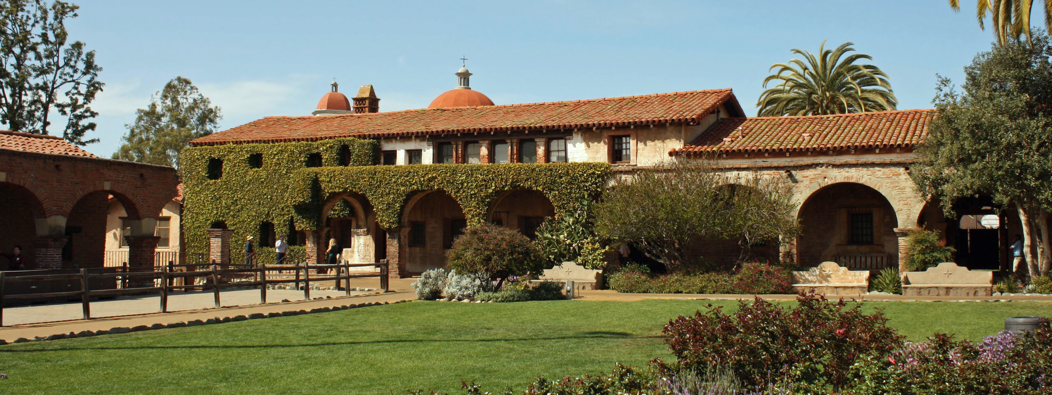 North Corridor of the Mission San Juan Capistrano, California